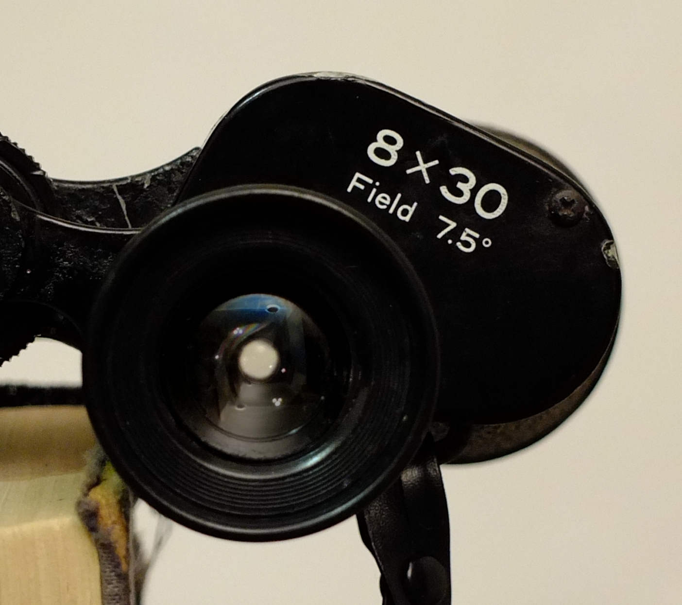 Photograph of binoculars showing the 'exit pupil' as a white disc visible through the eyepiece lens.